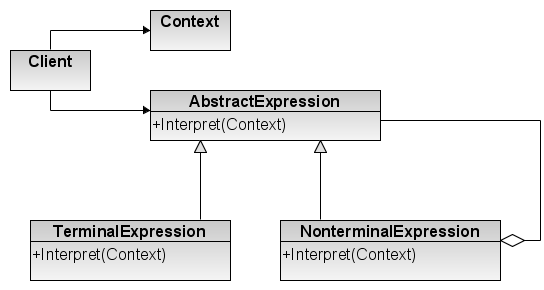 The Interpreter design pattern illustration